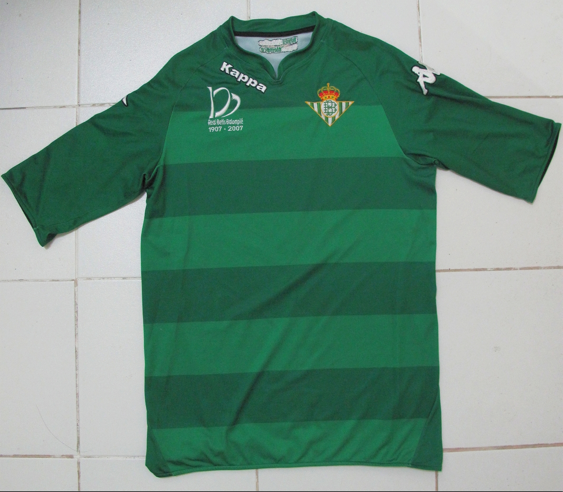 Real Betis Anniversary Shirt 1907-2007